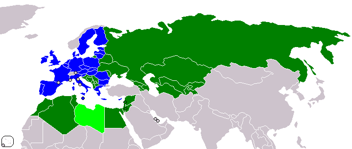 blue - EU; dark green - TEMPUS partner countries; light green - participation to TEMPUS under discussion